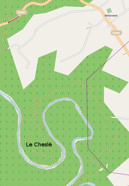 Map of the celtic oppidum named "Le Cheslé" near the village of Bérisménil (La Roche-en-Ardenne, province de Luxembourg, Belgium)